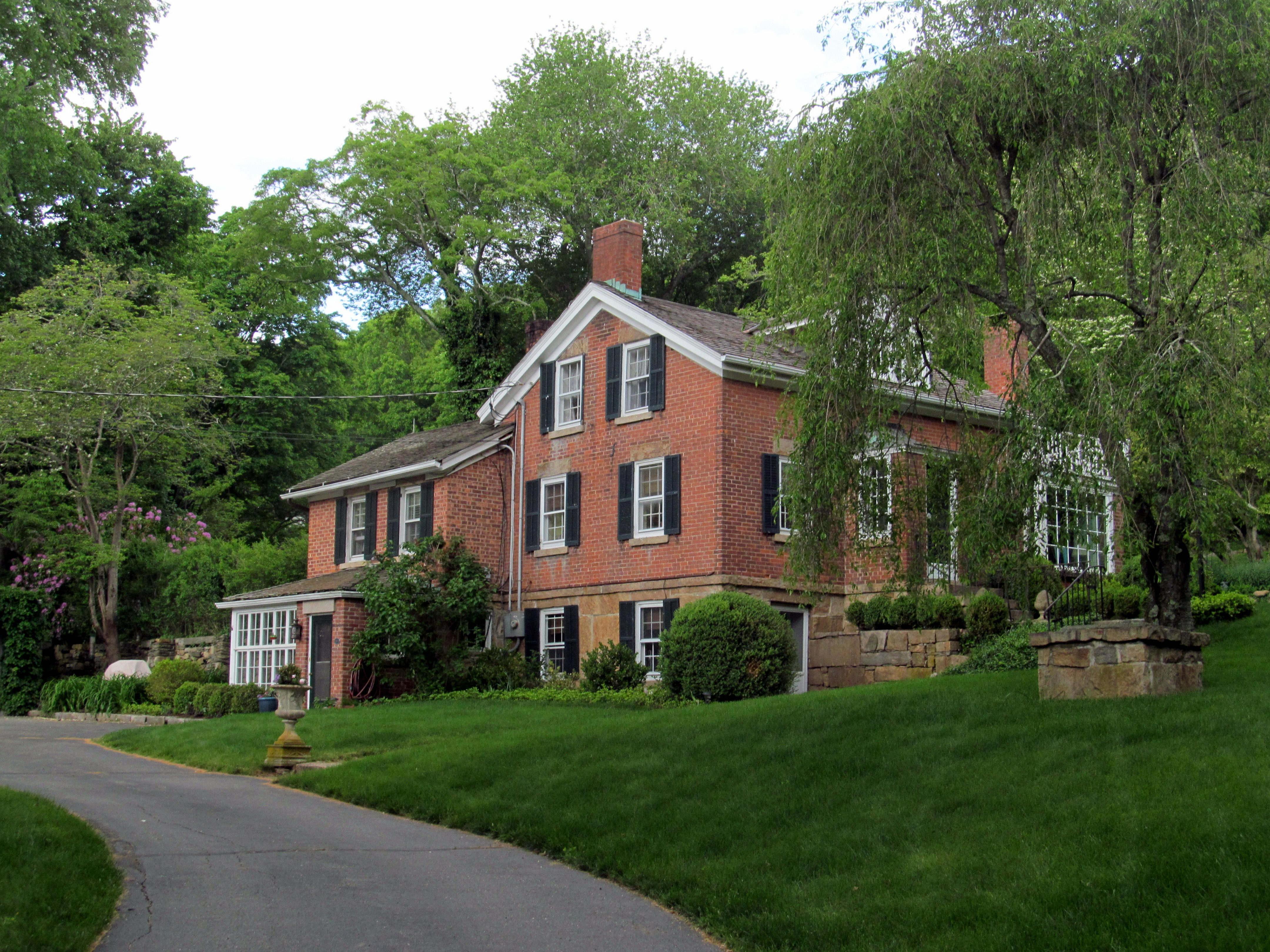 Springbank, a 1936 house in Old Lyme, Connecticut More images